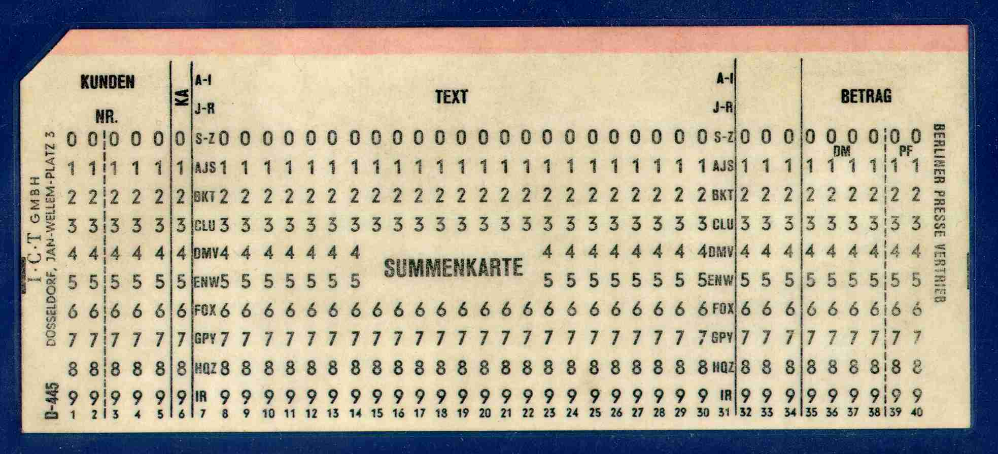 Historic Punched Card 40 columns